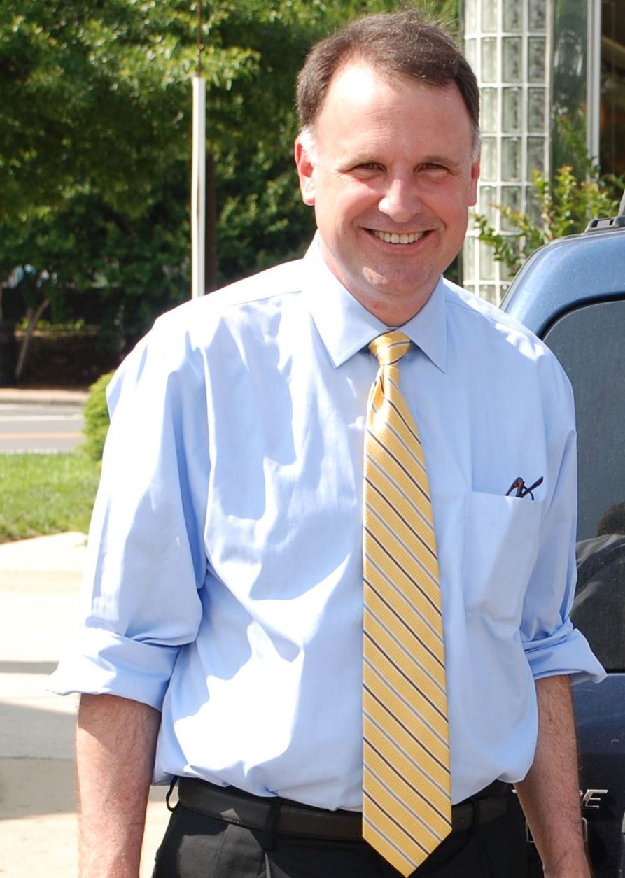 Photo I took outside Silver Diner of Creigh Deeds